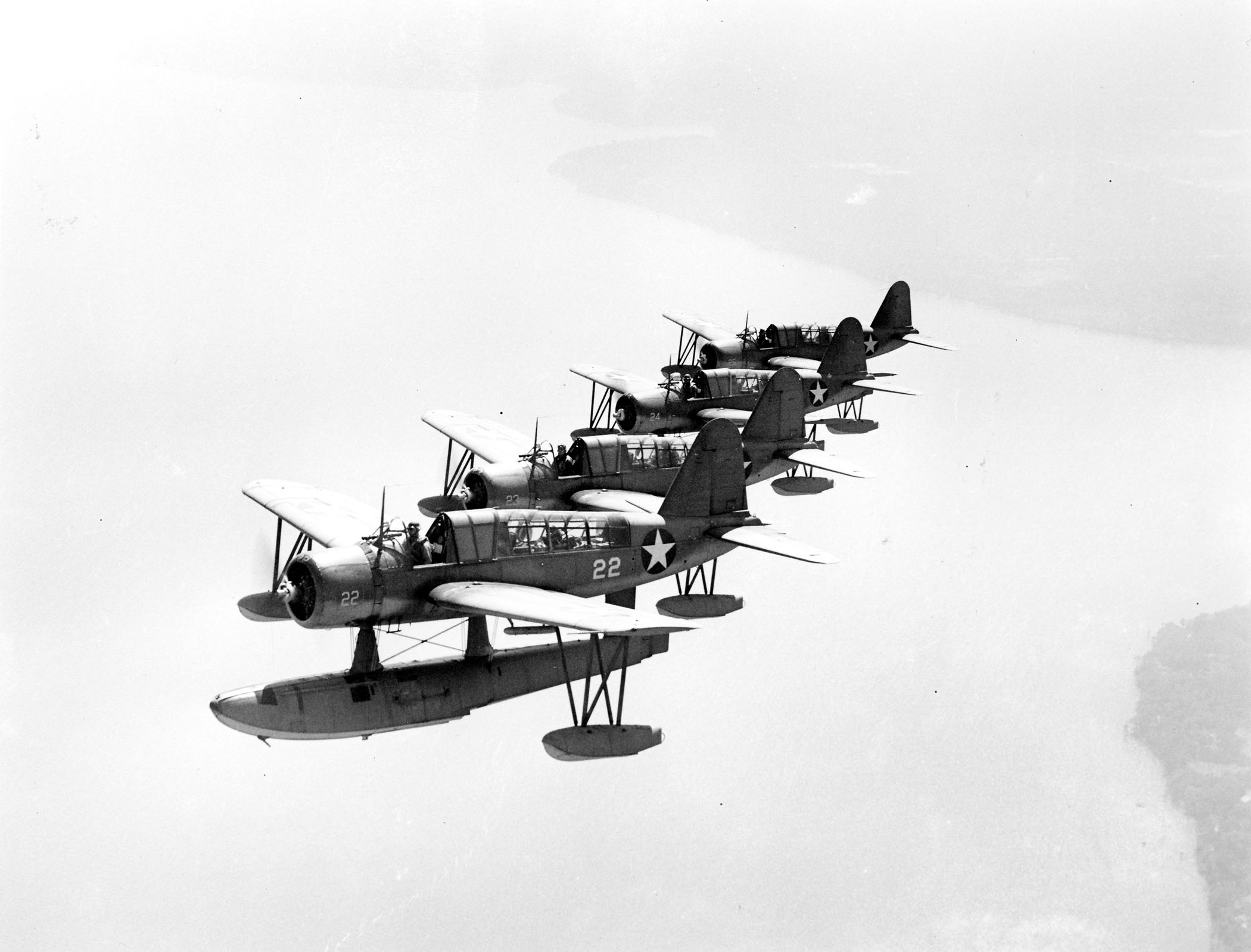 OS2U Kingfisher fly in echelon formation over NAS Jacksonville in 1943